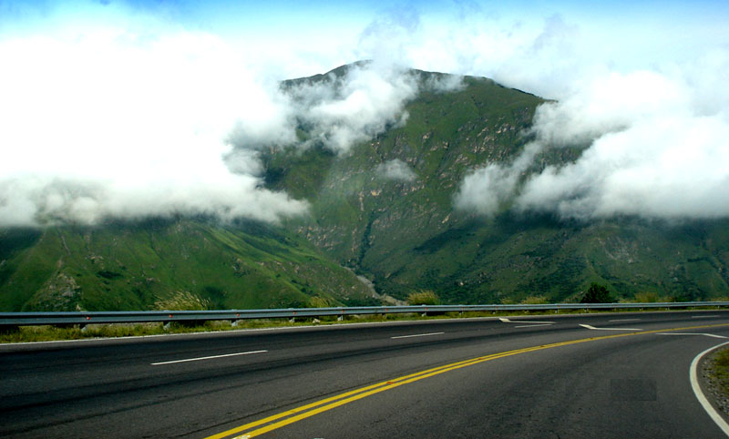 At that time, we were still descending from the high altitudes of the Andes and the Argentinean Puna, way down the National Route 9 to San Salvador de Jujuy. Altitude? 6200 ft.